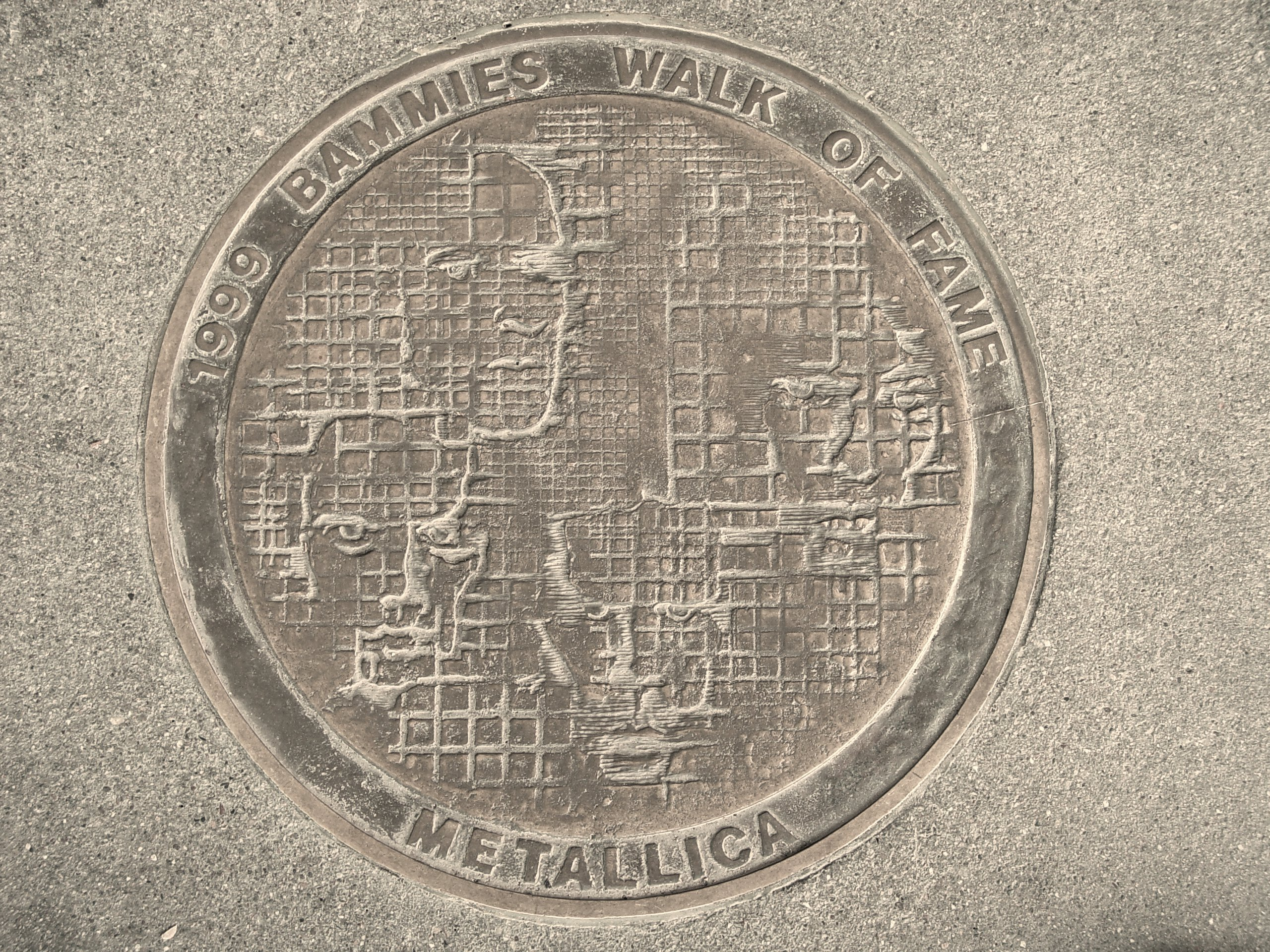 1999 BAMMIES (Bay Area Music Award) Walk of Fame Bill Graham Civic Auditorium San Francisco, CA